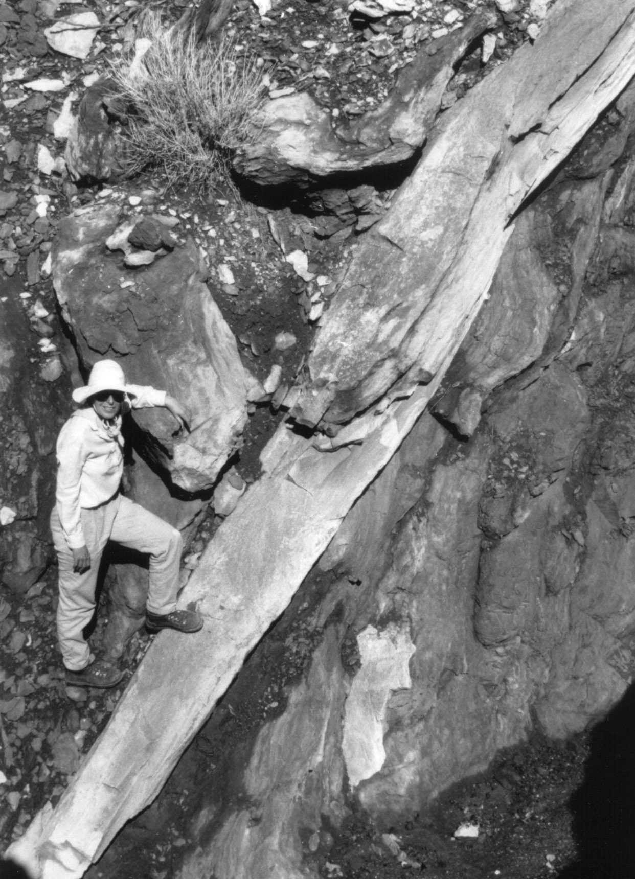 Photo by Dr. Peter Huntoon. See these references: 1.) Huntoon, P. W., 2000, Upheaval dome, Canyonlands, Utah, strain indicators that reveal an impact origin: in, Sprinkel, D. A., T. C. Chidsey, and P. A. Anderson, eds., Geology of Utah=s parks and monuments: Utah Geological Association, p. 619-628. 2.) Huntoon, P. W., and Shoemaker, E. M., 1995, Roberts rift, Canyonlands, Utah, a natural hydraulic fracture caused by comet or asteroid impact: Ground Water, v. 33, p. 561-569